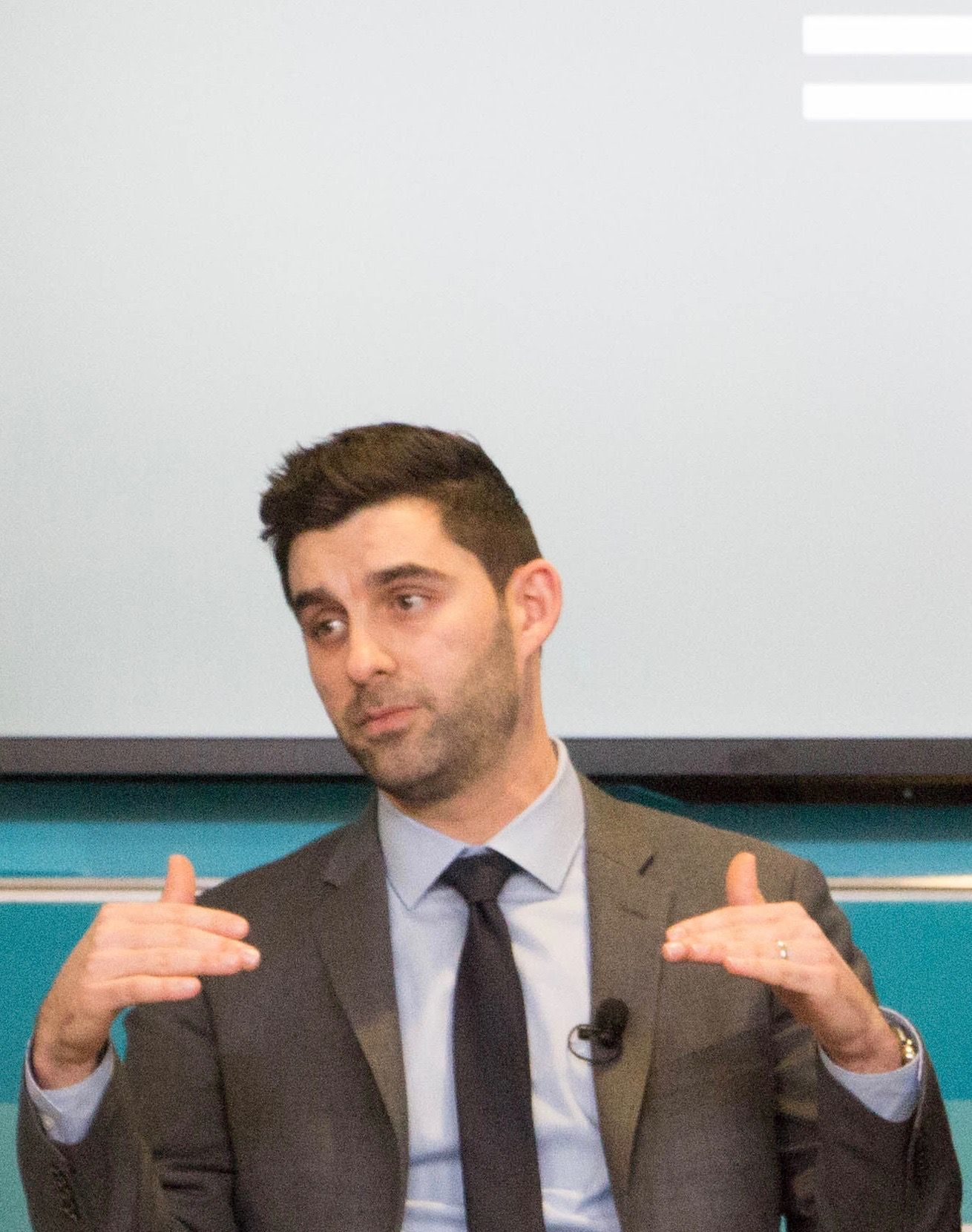 Dave Weinstein at New America cybersecurity event in Washington, DC.